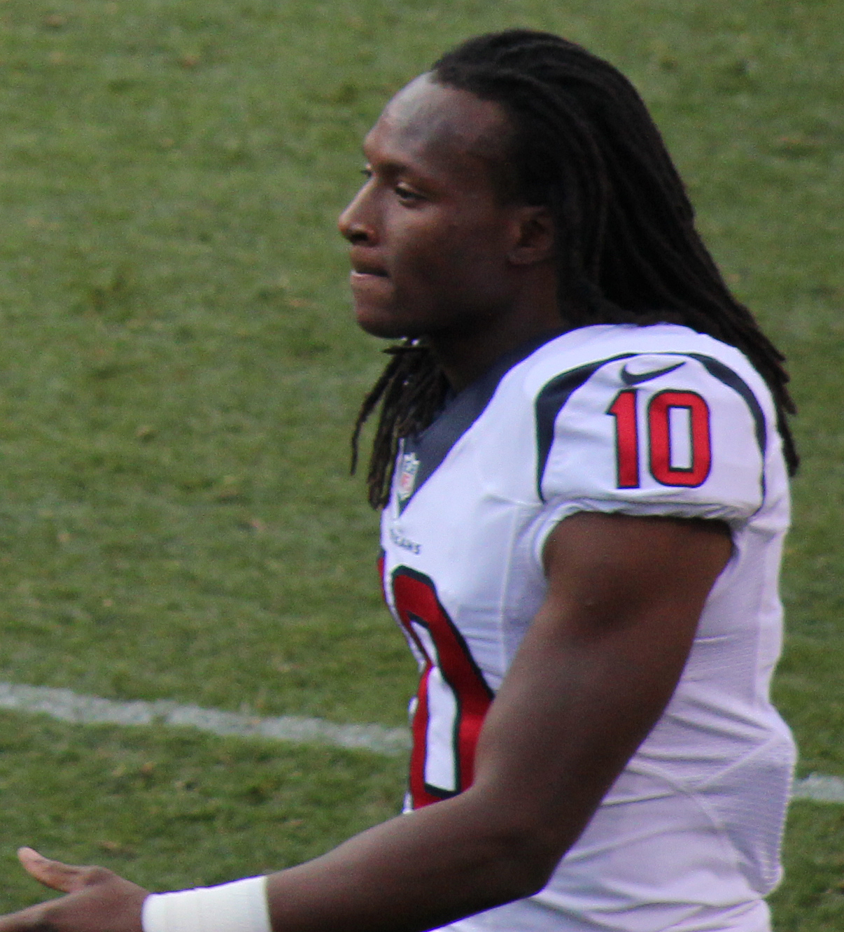 DeAndre Hopkins, a player on the National Football League.